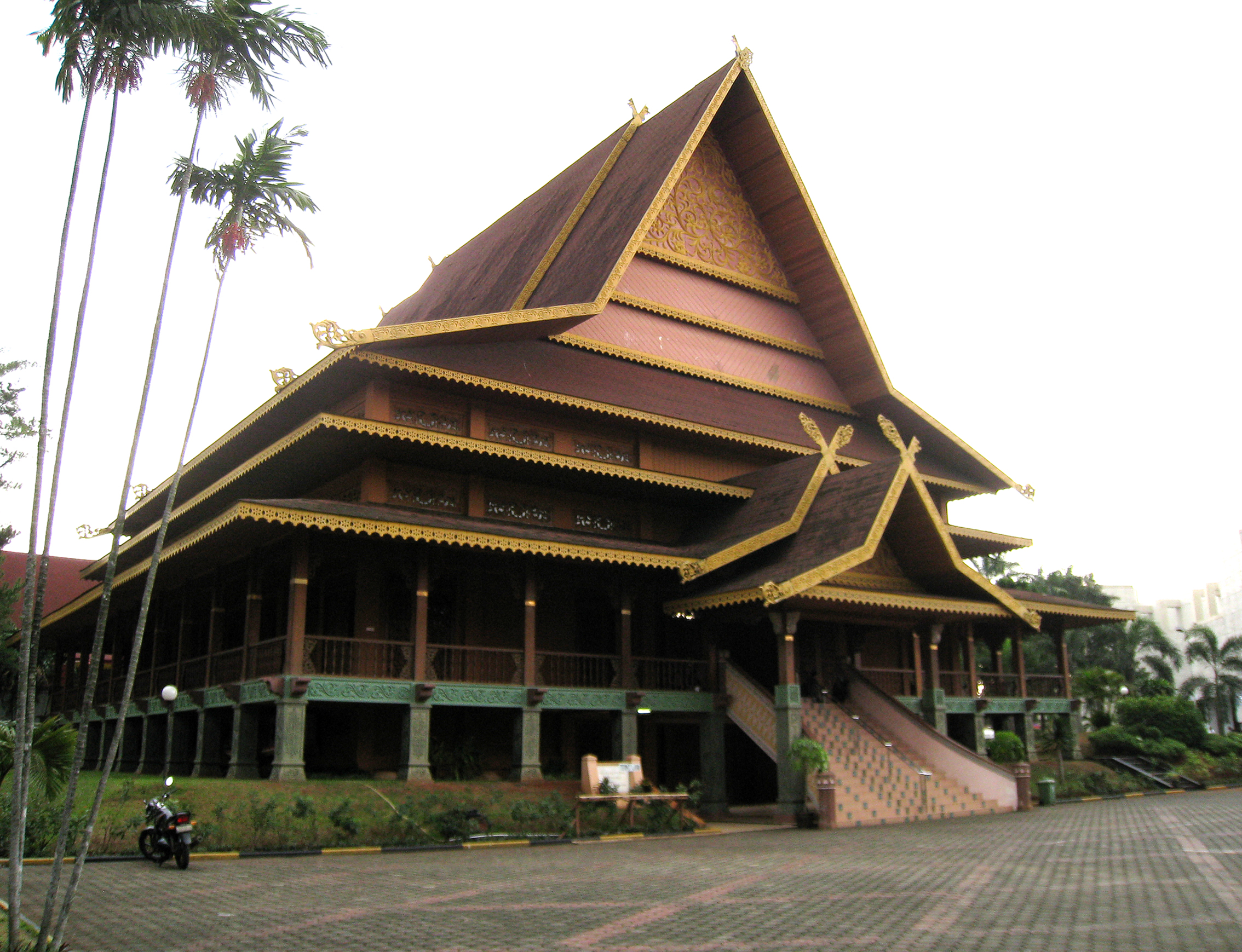 Grand Malay house with Limas roof style at Riau Pavilion, Taman Mini Indonesia Indah, Jakarta. This style of structure often used in palace of Malay kings as well as government buildings.